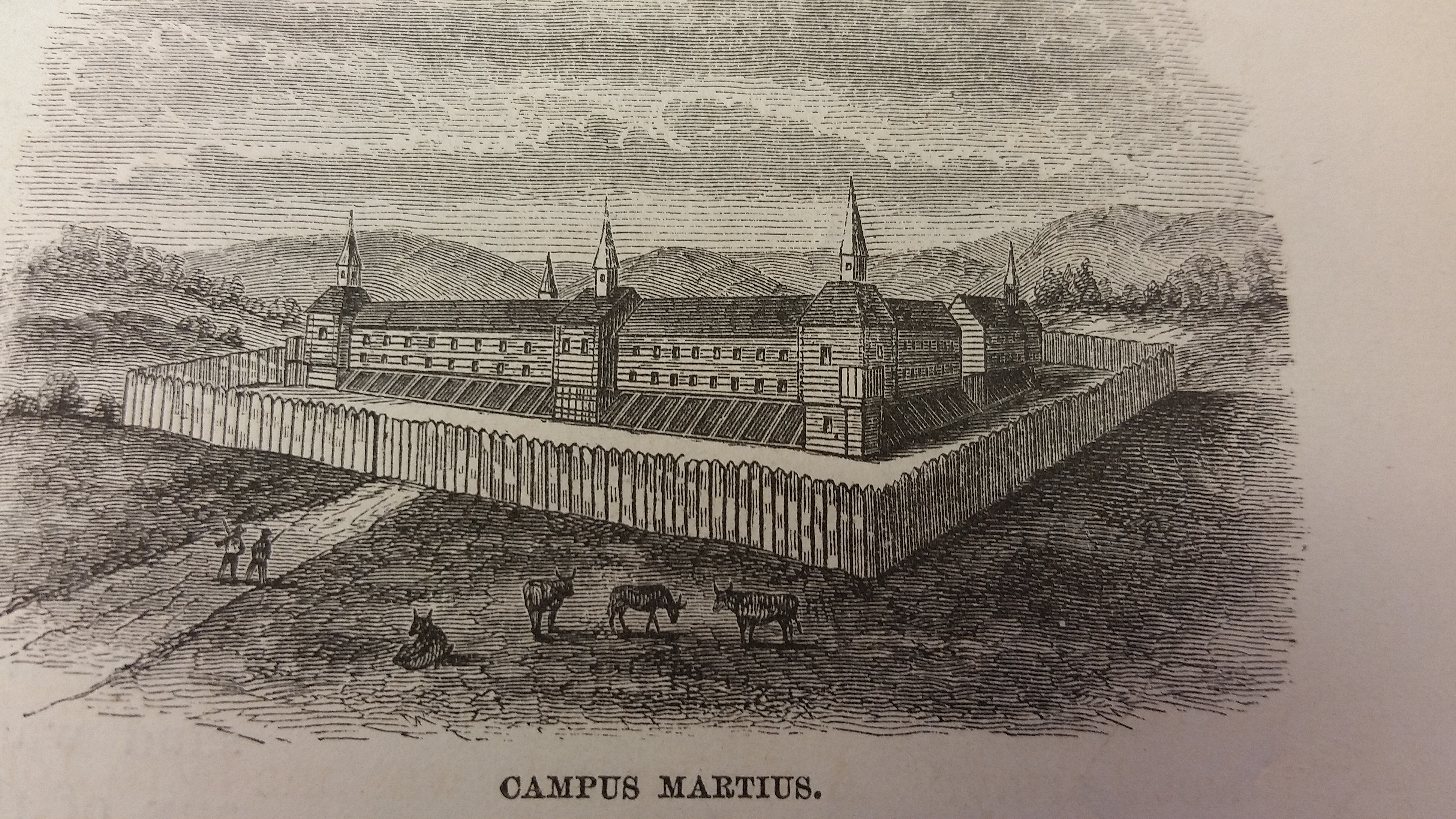 Campus Martius - Lossing